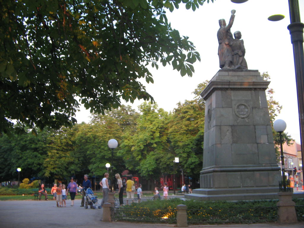 Central park in Zaječar, Serbia